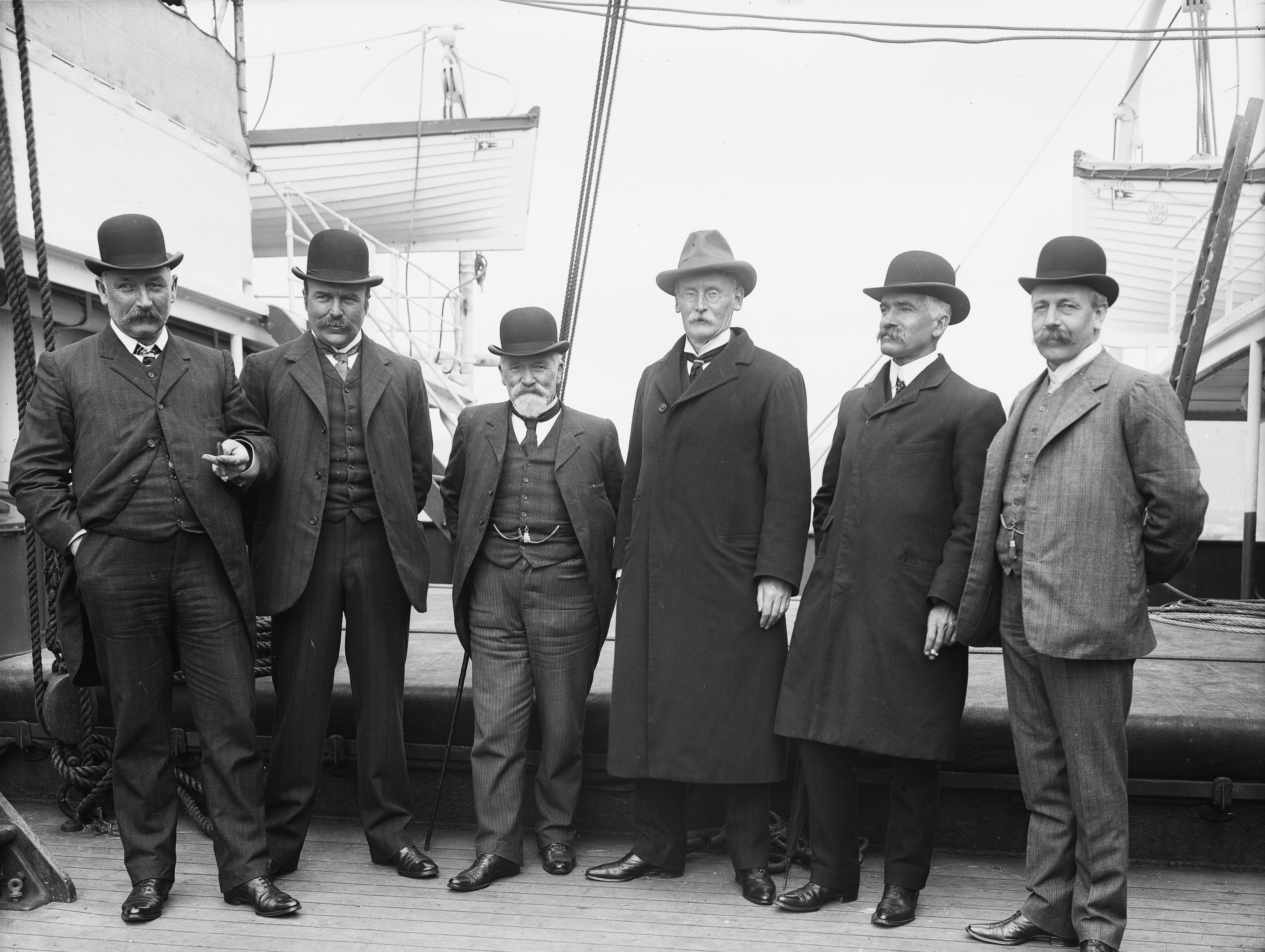 Group on board the ship Corinthic, upon the return of William Hall-Jones in 1908. From left to right: John Andrew Millar, Robert McNab, James McGowan, William Hall-Jones, John George Findlay, George Fowlds. Photograph taken by Sydney Charles Smith.